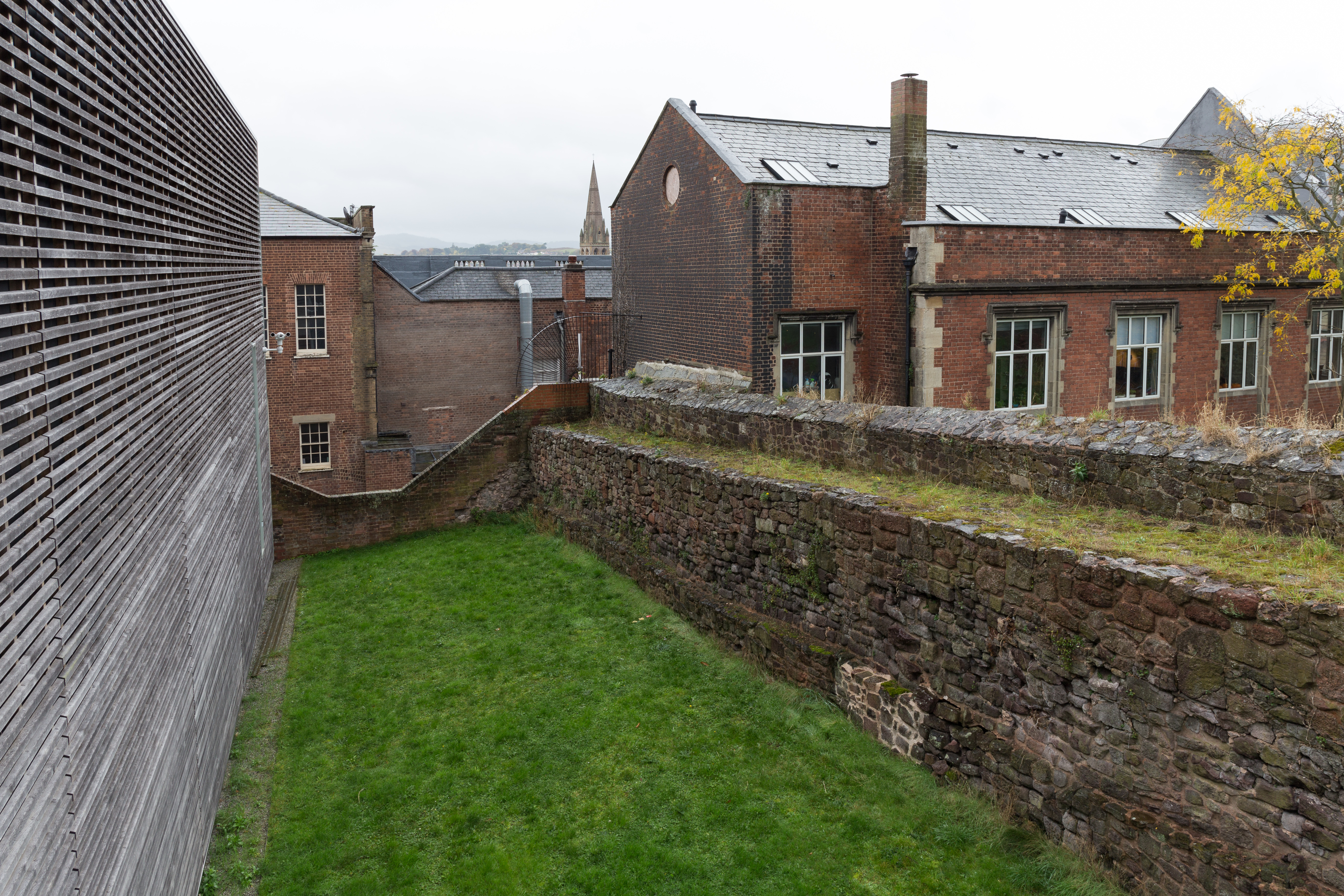 Roman city wall of Exeter near the Royal Albert Memorial Museum.